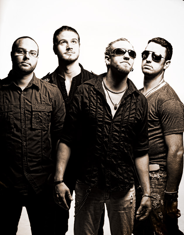 Early 2011; Kevin David (Vocal/ Guitar), Frank Vee (Bass) and Chris Lewis (Drums), former founders of D-Activ8, found new breath as a three piece band. They were later joined by Patrick Olivier (Guitar) in early 2012, former Blunderboar founder and former Grace Over Diamonds member. Although they grew up with different musical influences, the members of the Canadian rock band Tomorrow's Crisis, have created a sound of their own; influenced by rock, grunge and metal acts such as: Stone Sour, Shinedown, Alter Bridge, Foo Fighters, Chevelle, Sevendust and many more. Tomorrow’s Crisis’ first official release “ALL THOSE YESTERDAYS”, was released in June 2011. The album was recorded by producer Frank Turpin. Over the last few years, the band built its own trust worthy following playing countless amounts of shows all over Ontario and Quebec and constantly writing new material for an upcoming album in the near future.